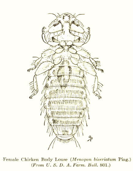 Bird louse